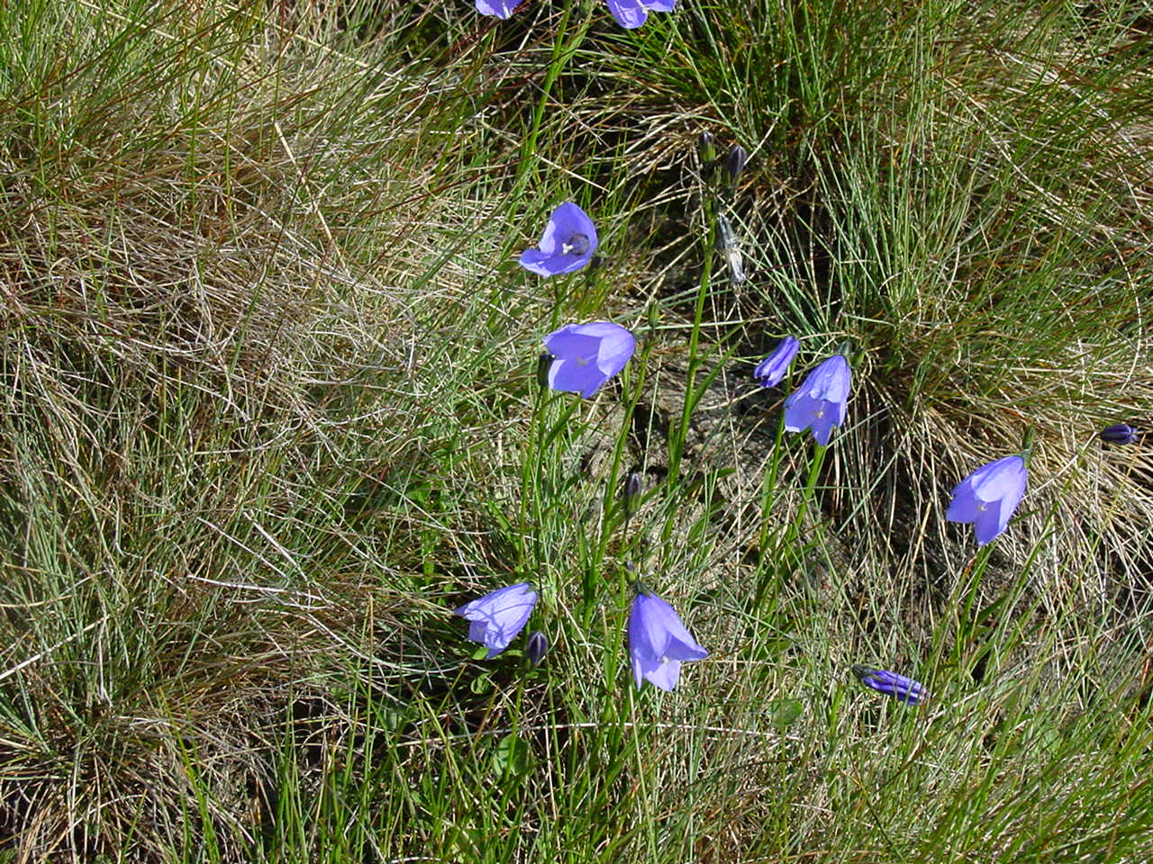 Campanula gelida, an endangered species of bellflower, growing in the mountains of Hrubý Jeseník, the Czech Republic